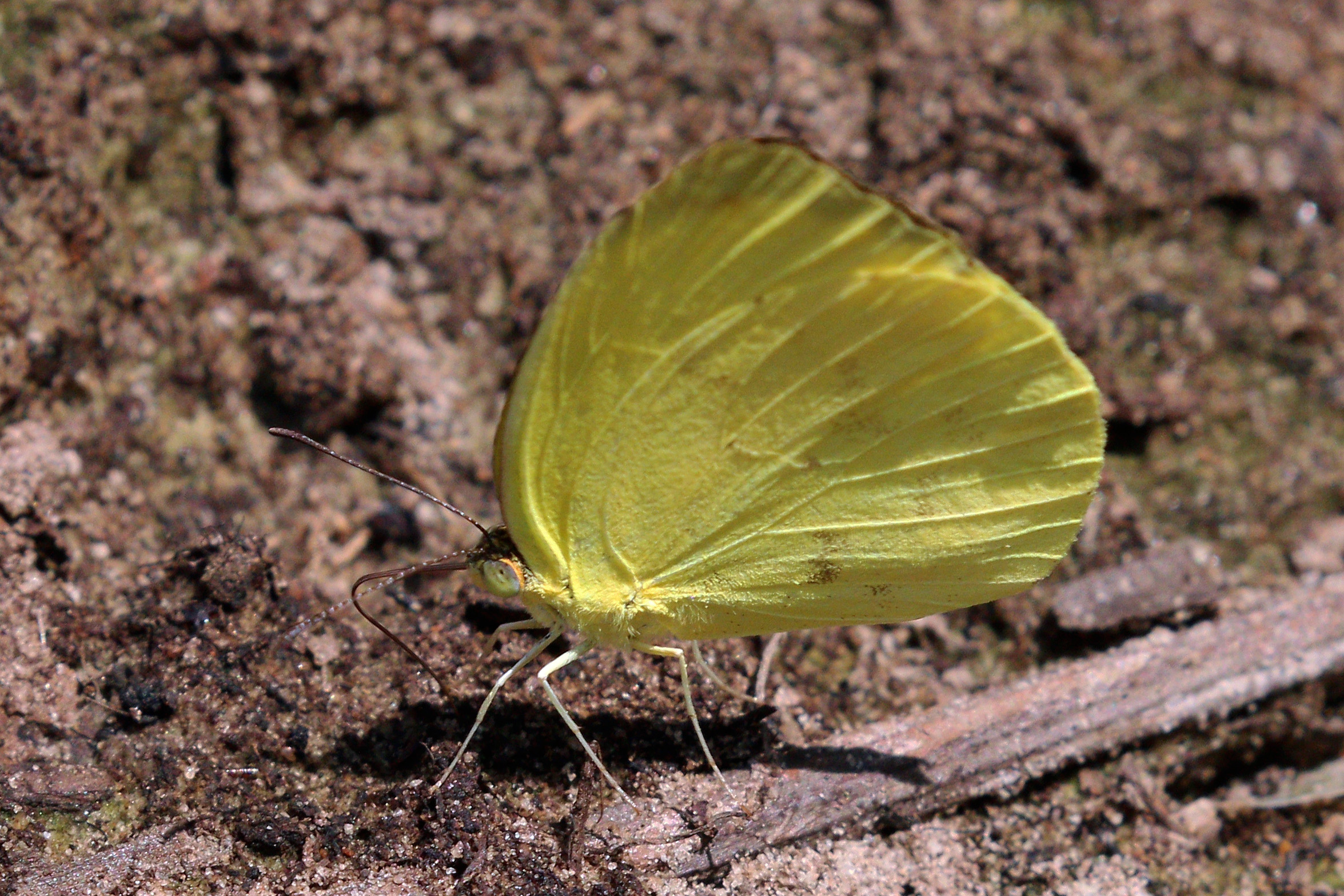 Grass yellow (Eurema venusta), Cristalino River, Southern Amazon, Brazil